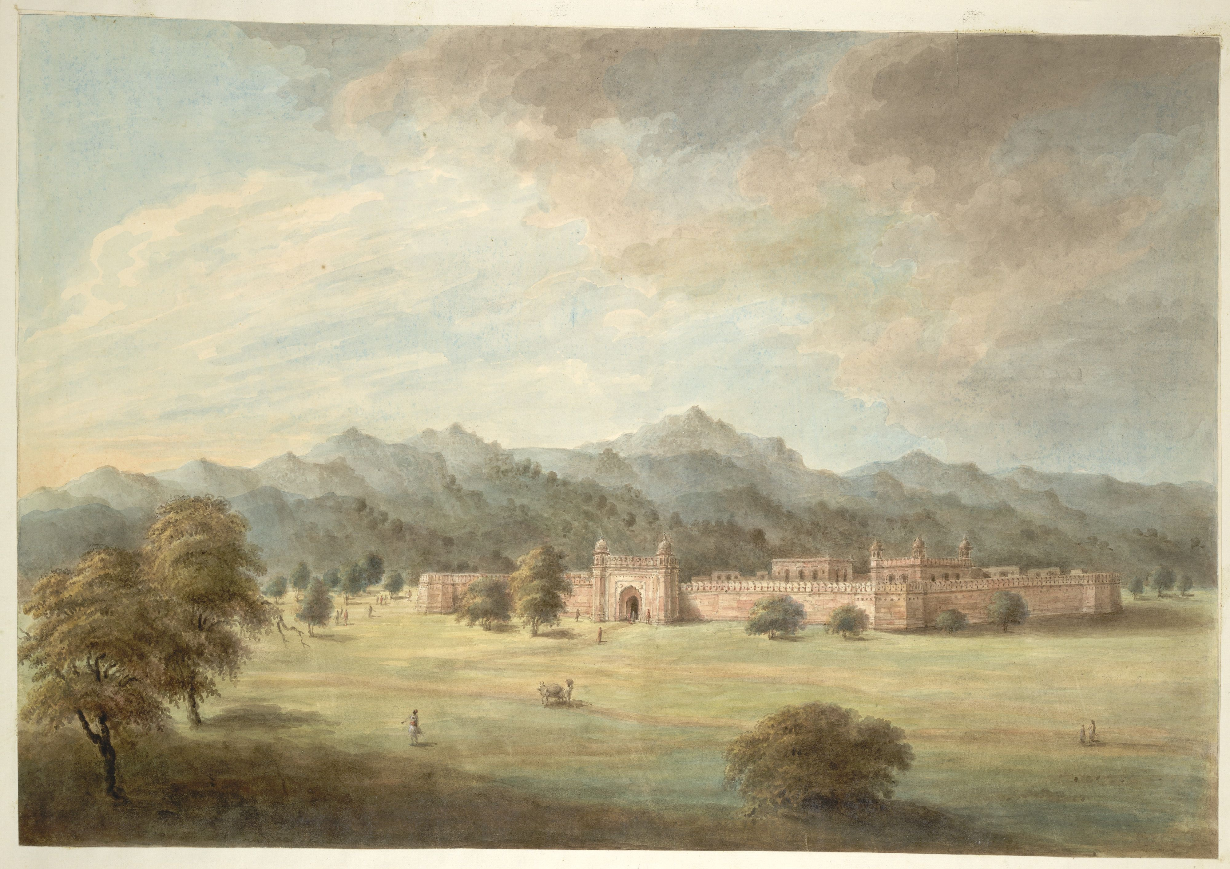 Patthargarh fort outside Najibabad, Uttar Pradesh, India. 1814-15. Patthargarh fort, built by Najib-ud-Daula, within a mile of the city, in 1755. Patthargarh, also known as Najafgarh, was built from the stones of Mordhaj, an ancient fort within the area.